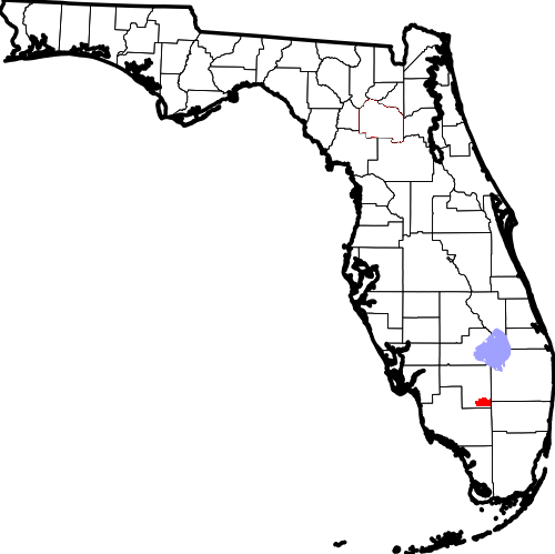 Map of Florida with Big Cypress Indian Reservation highlighted.